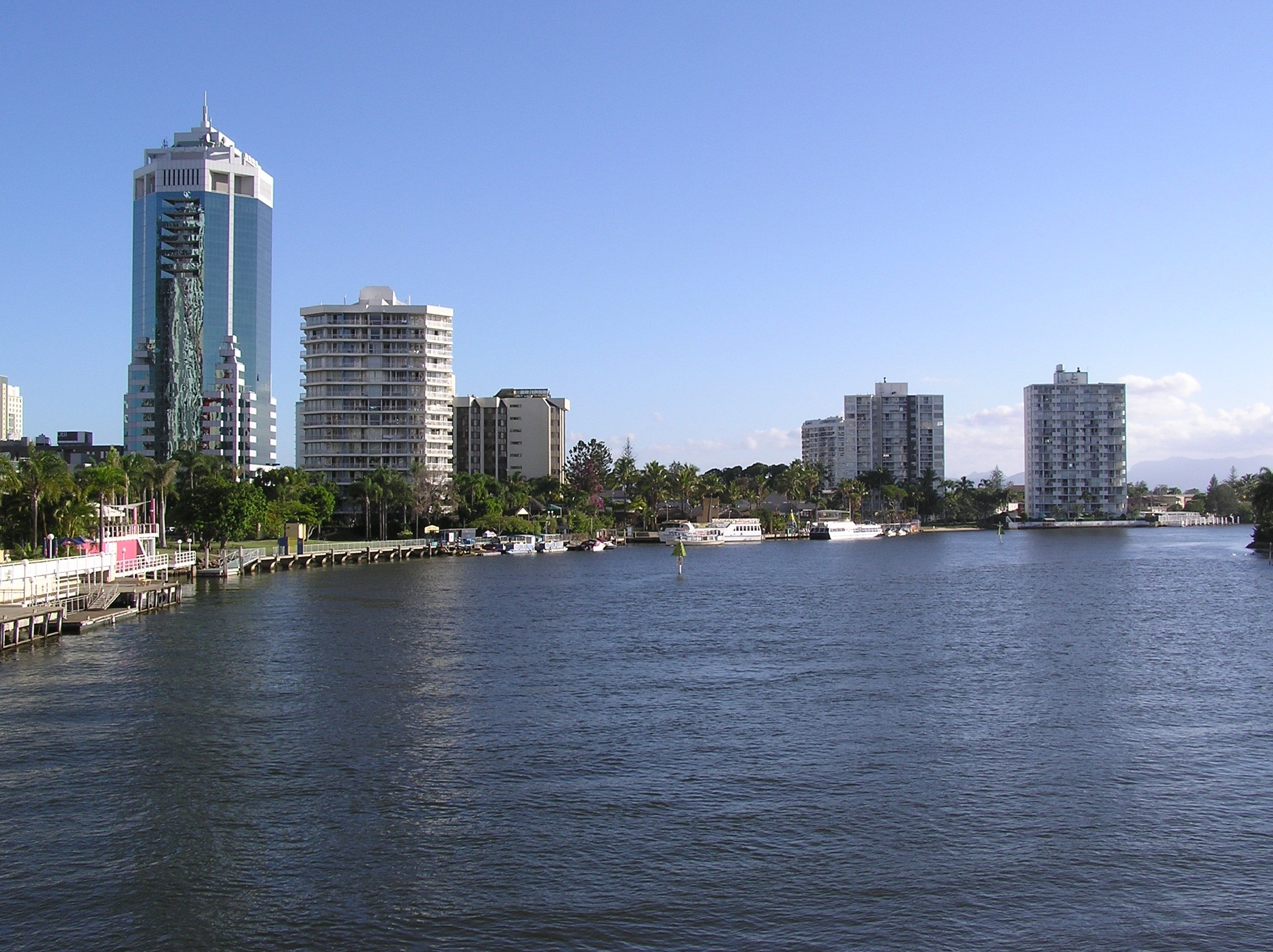 Narang River in Surfers Paradise.